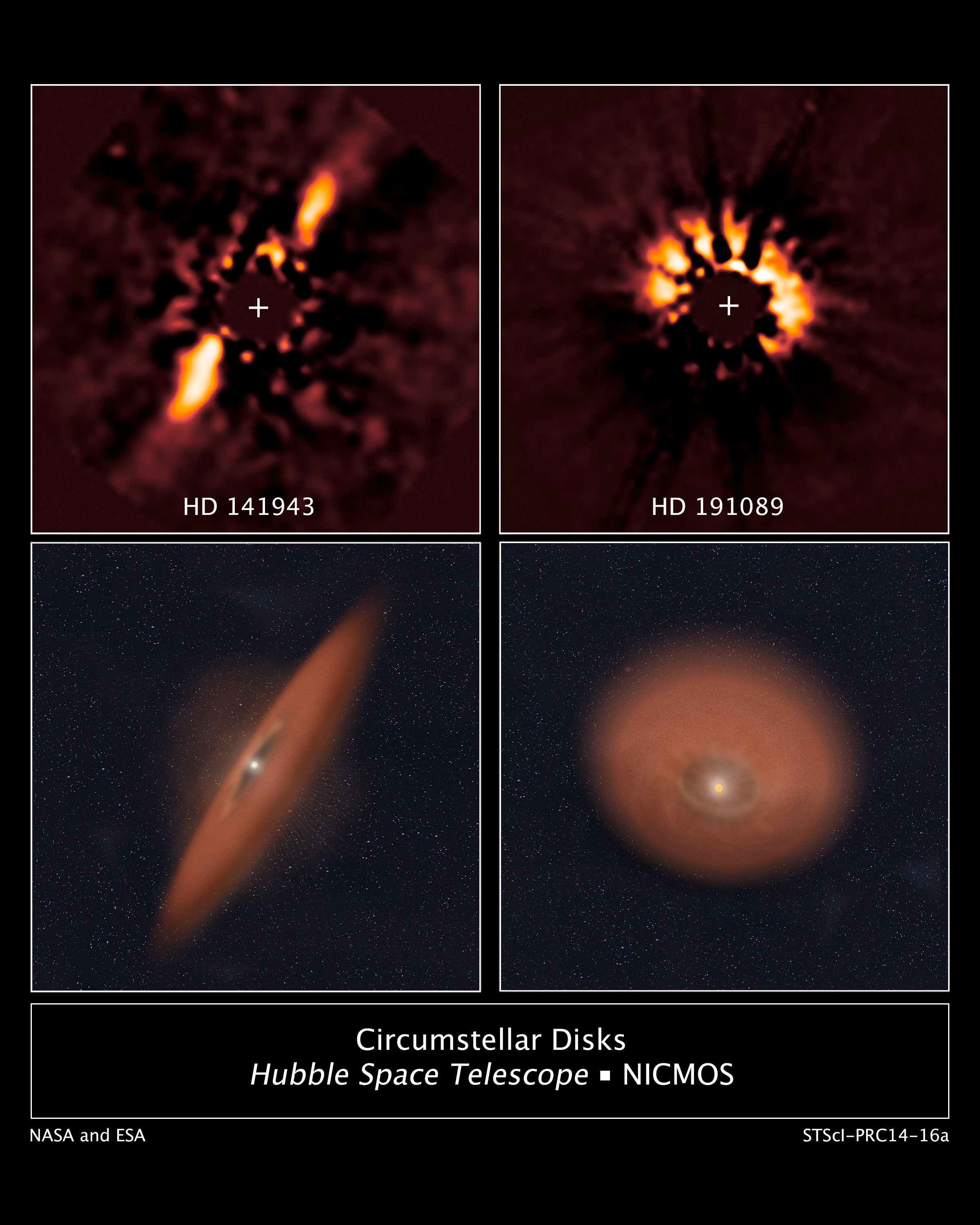 The two panels at the top of this image reveal debris discs around young Sun-like stars. These were uncovered in archival images taken by the NASA/ESA Hubble Space Telescope. Hubble's Near Infrared Camera and Multi-object Spectrometer observed these discs in near-infrared in 2007. Astronomers blocked out the bright light from each star in order to analyse the faint light reflected off dust particles in the discs. The illustration beneath each image depicts the orientation of the debris discs. Astronomers retrieved these images from the Barbara A. Mikulski Archive for Space Telescopes (MAST) and used more powerful image analysis techniques to search for planetary systems.